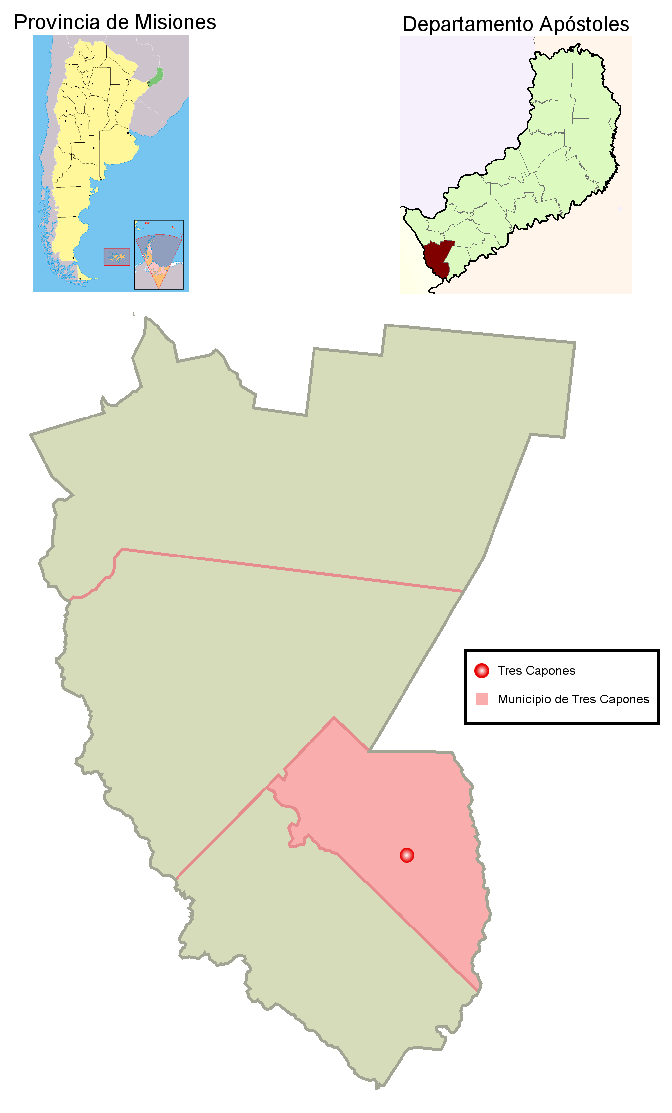 A map showing municipio of Tres Capones in Iguazú departament, Misiones province, Argentina. Also shows Tres Capones town location. Created with GIMP.